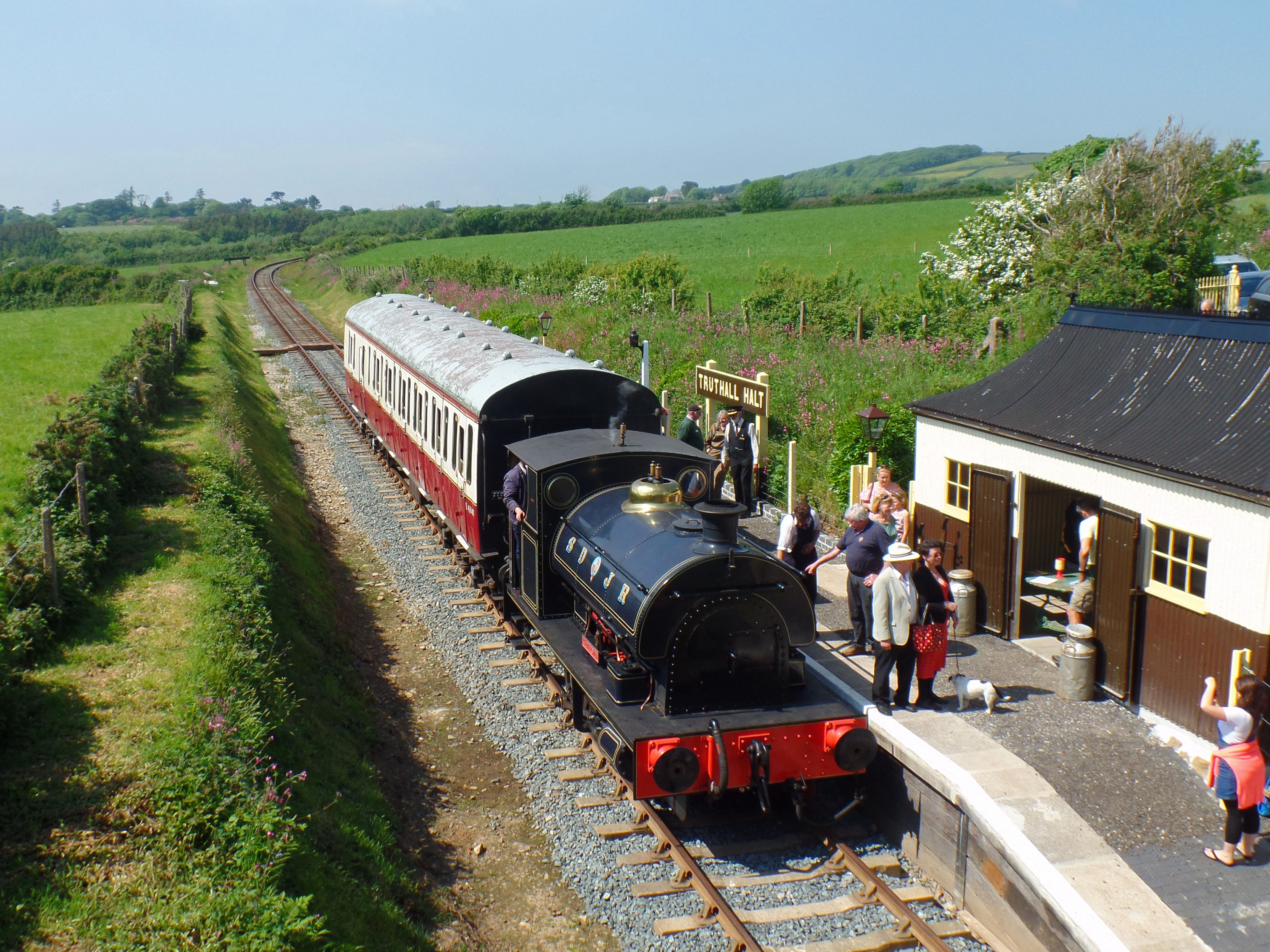 SDJR Peckett 0-4-0ST Kilmersdon at the newly restored Truthall Halt on the Helston Railway, Cornwall. This was taken in May 2018 over a weekend which saw the first steam services running on the line for over 50 years since the line closed in the 1960s.